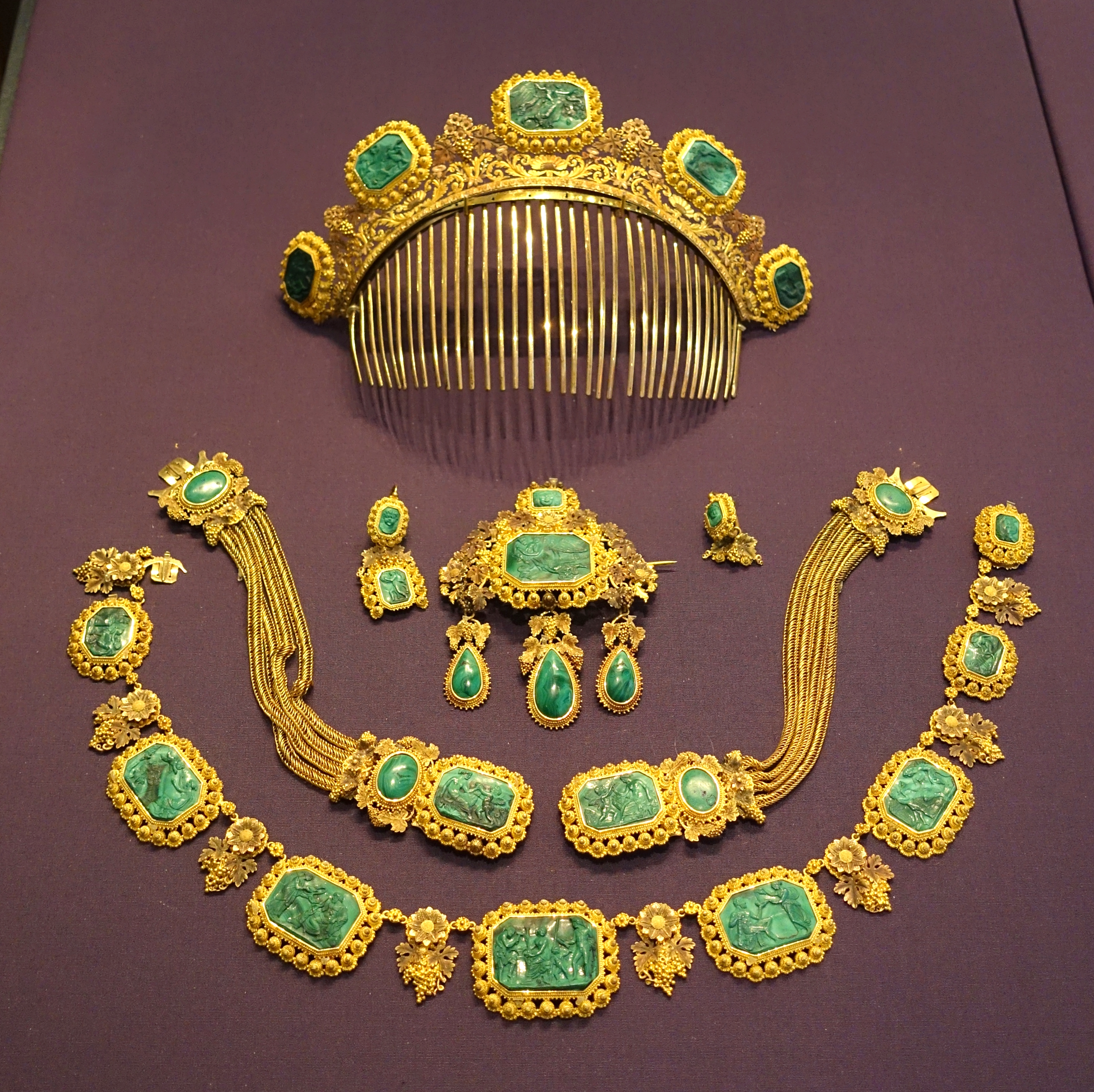 Exhibit in the Nordiska museet - Stockholm, Sweden. This work is in the public domain because the artist(s) died more than 70 years ago.